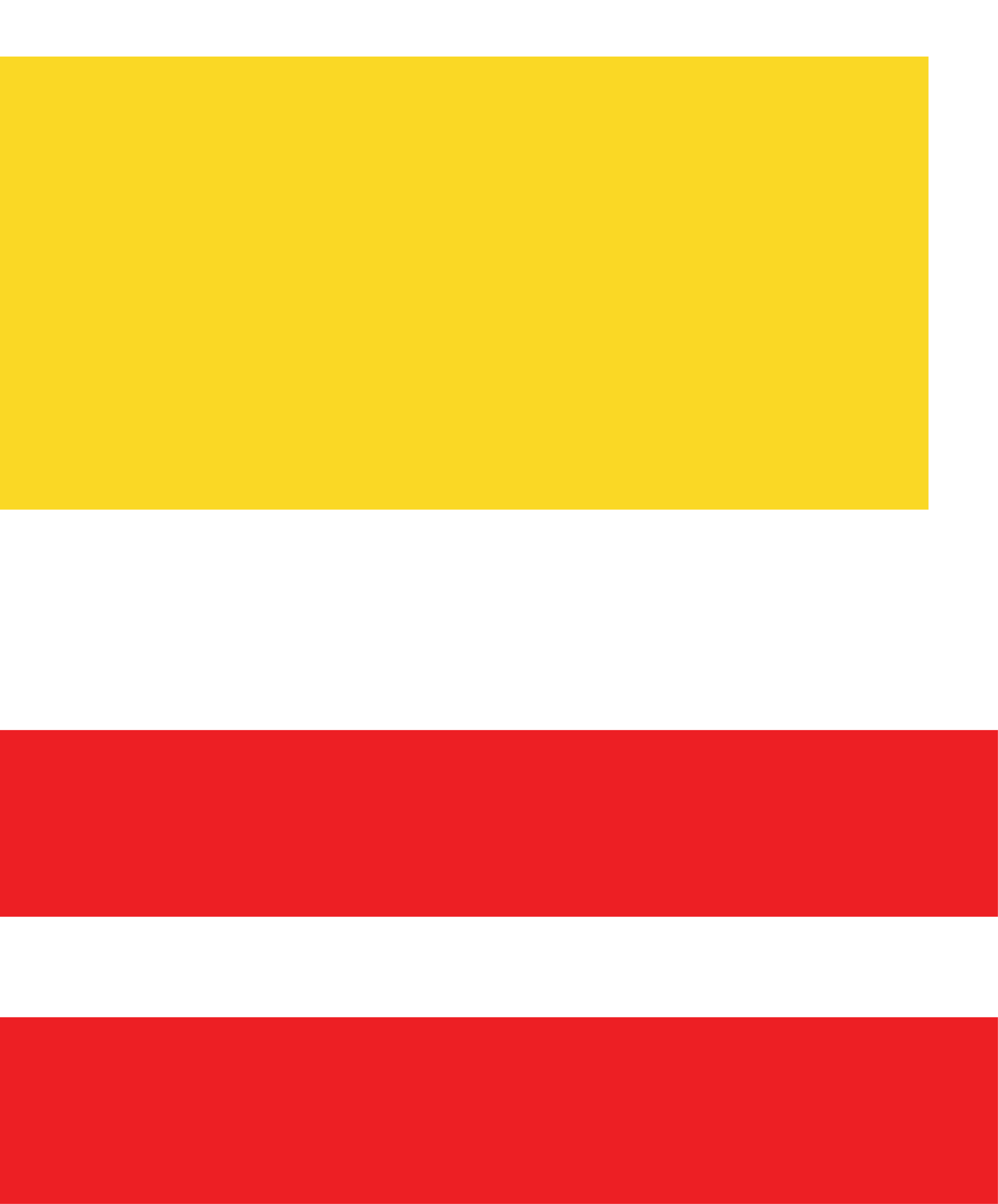 Based on David Nicolle "Armies of the Muslim Conquest" illustrations by Angus McBride. And Martin Hinds "The Banners and Battle Cries of the Arabs at Siffin" Al-Abhath XXIV